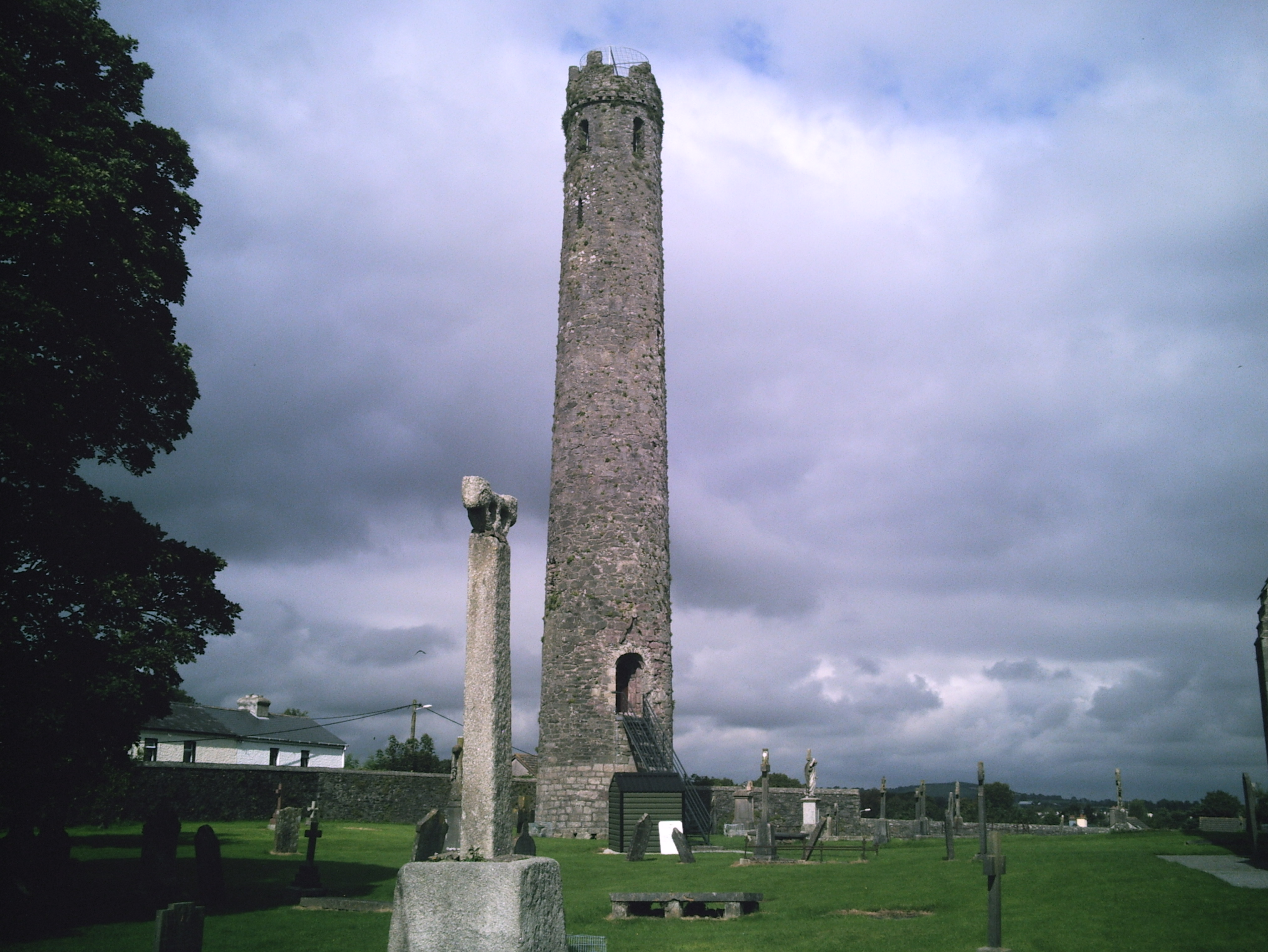 Photo of Kildare Irish Round Tower in the town of Kildare, in the County of Kildare Ireland